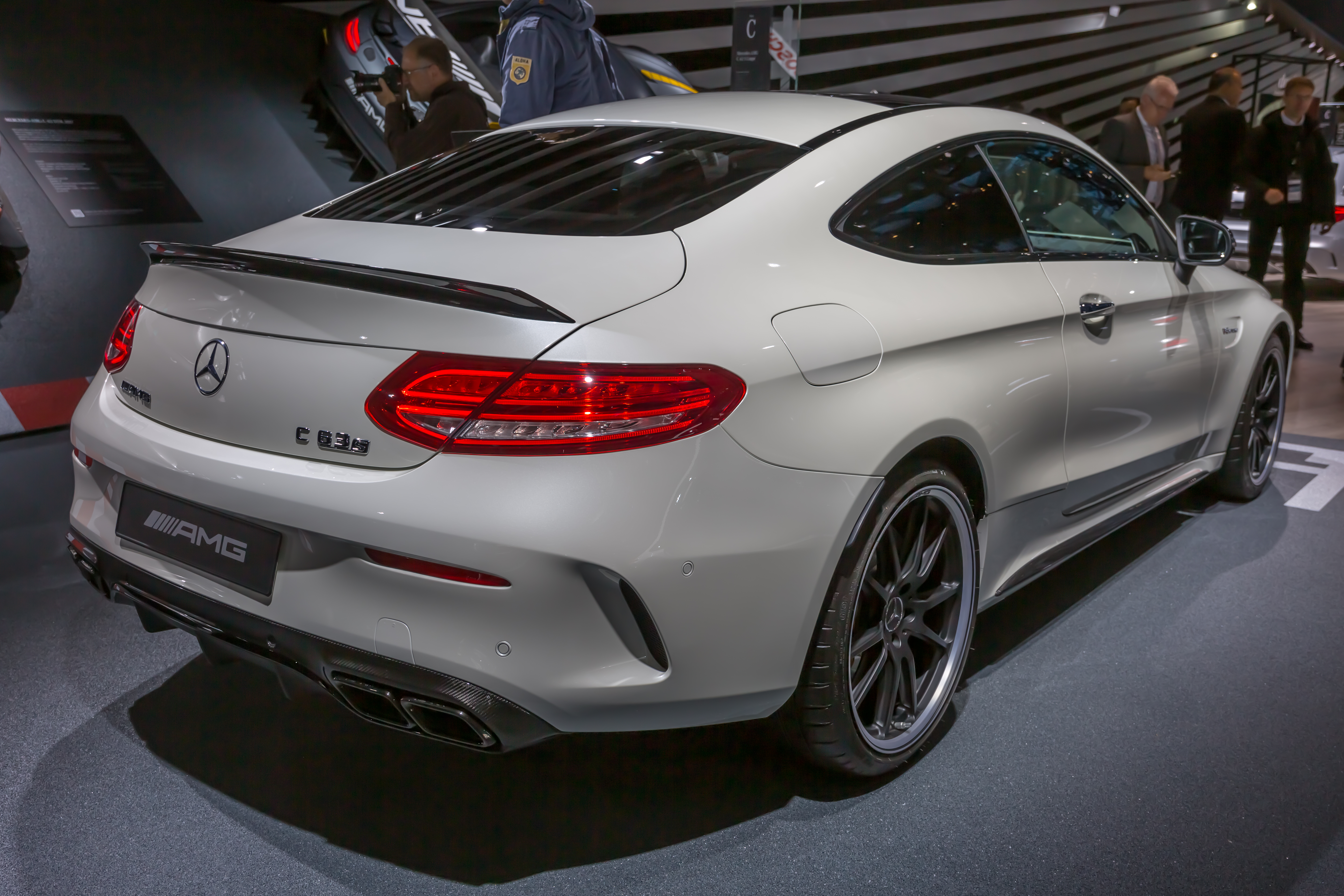 Mercedes-AMG C 63S Coupe, IAA 2017